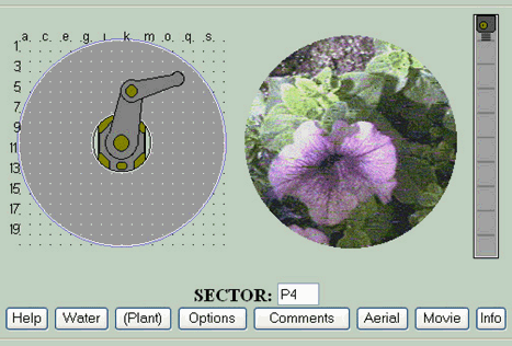 Screenshot of Telegarden web interface